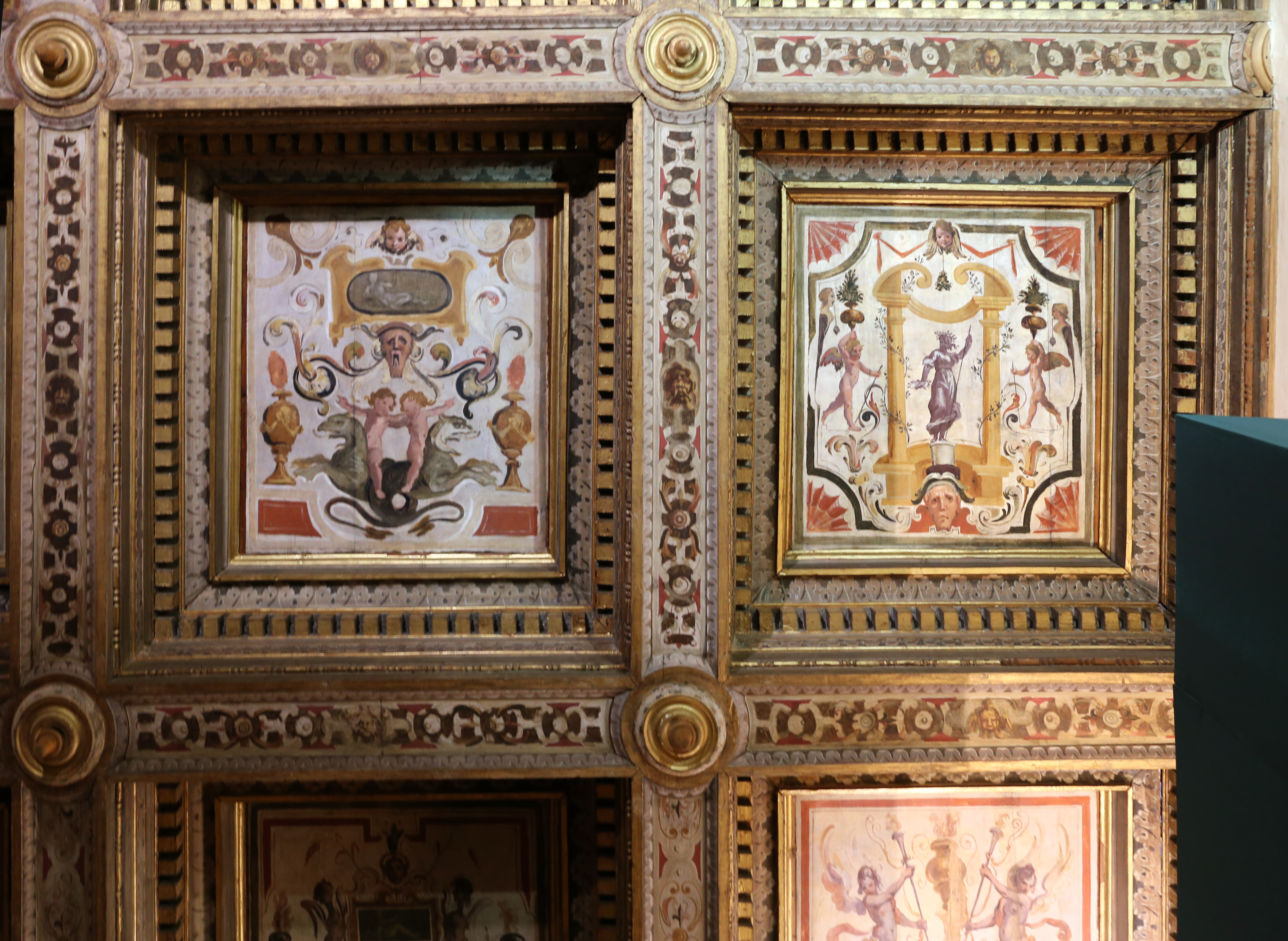 Senigallia